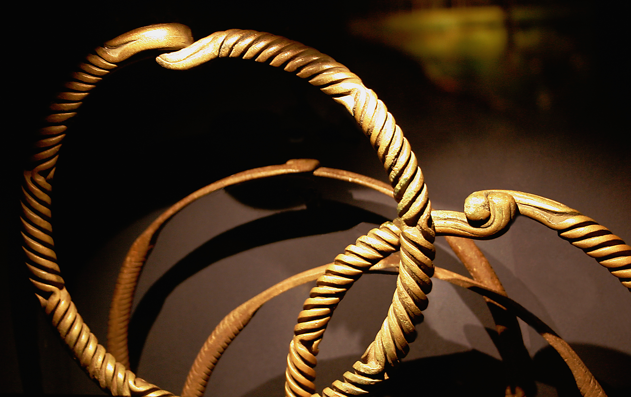 Pairs of bronze rings. Found at Herslev Mose near Vejle and Horn Mose near Gjern, Denmark. Dated to late Bronze Age: 600-500 B.C. On display with the bog bodie Grauballemanden at Moesgård Museum.